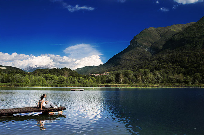 A view of Lake Piano, Como, Italy. In the background Mount Grigna